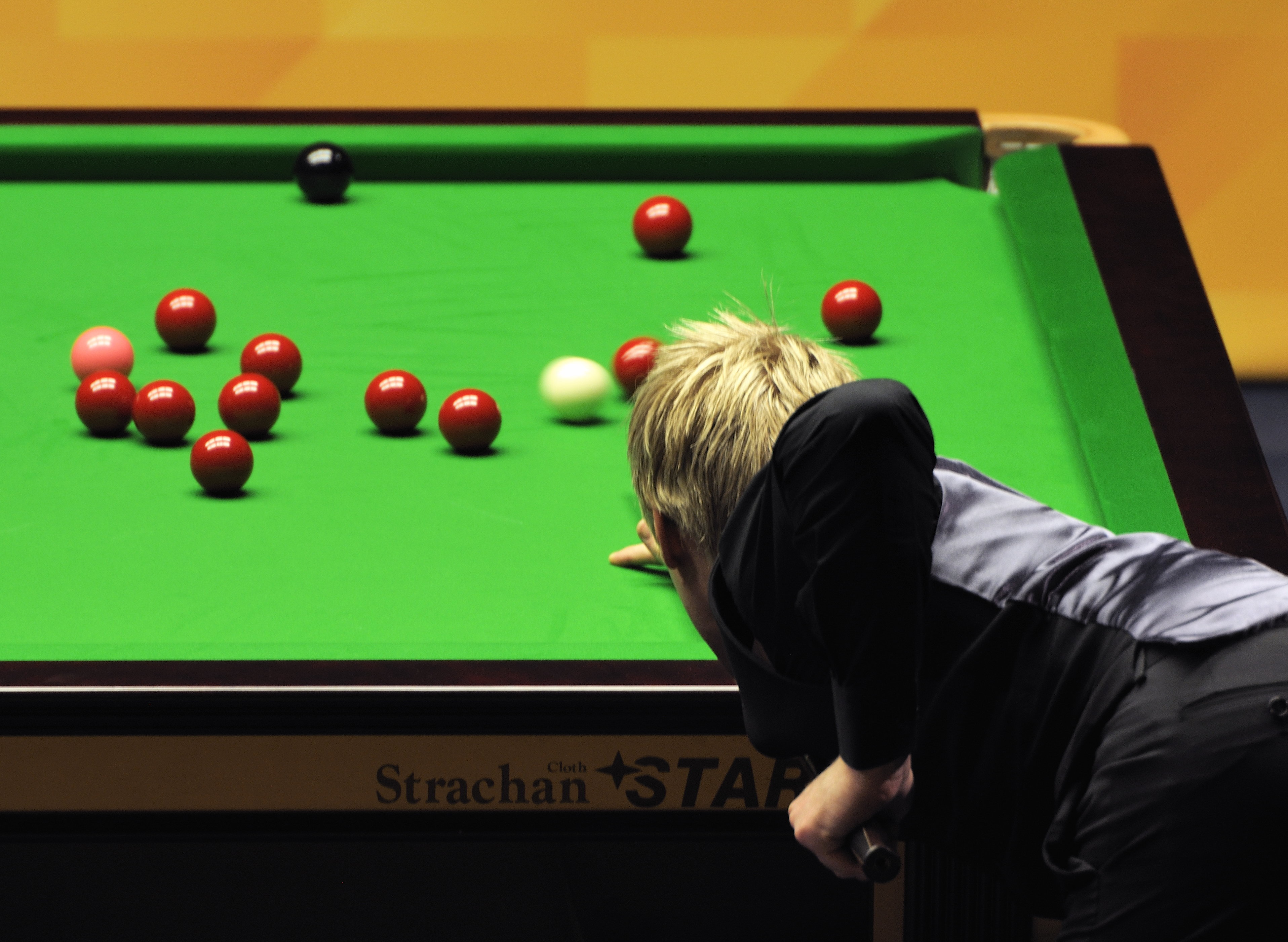 Picture taken in Berlin during the Snooker German Masters in 2013. Neil Robertson.